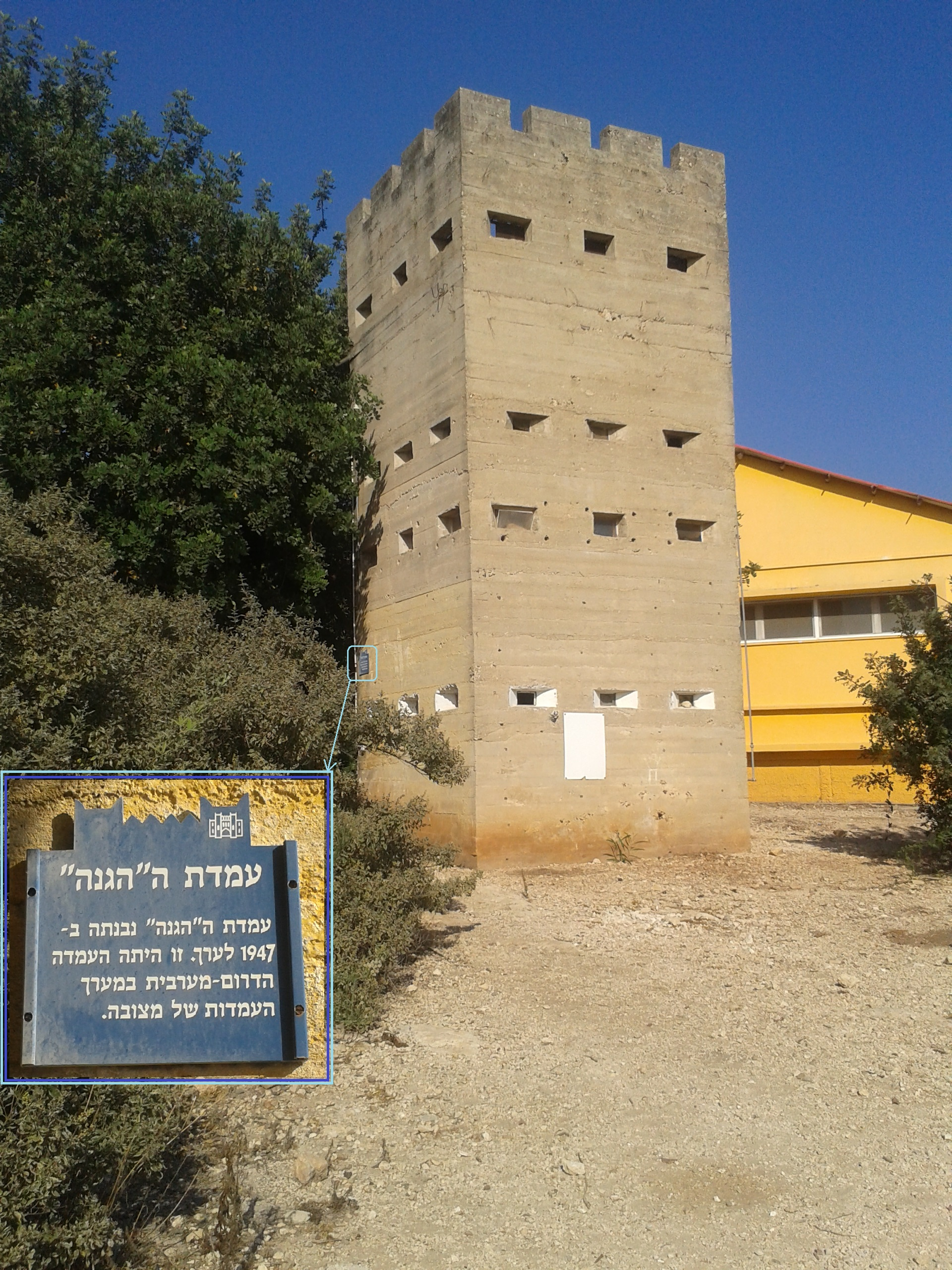 מגדל שמירה מערבי